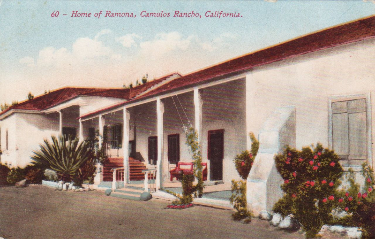 Postcard for Rancho Camulos, Piru, California, USA